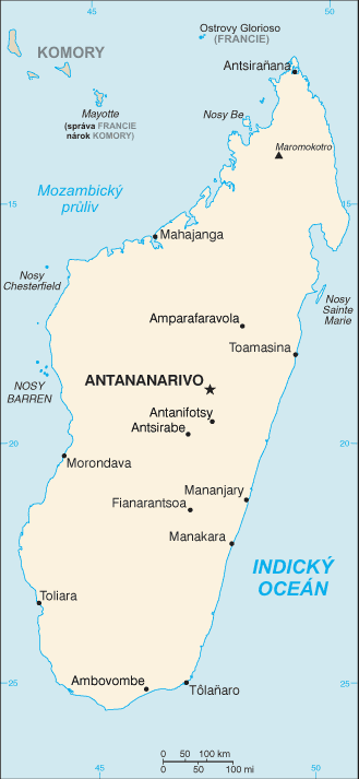 Map of Madagascar with Czech description.